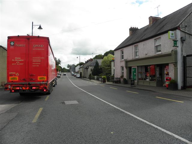 Smithborough, Co Monaghan, near to Smithborough, Magherarny Cross Roads, Killina and Cloghernagh, Monaghan, Ireland. Looking north-east